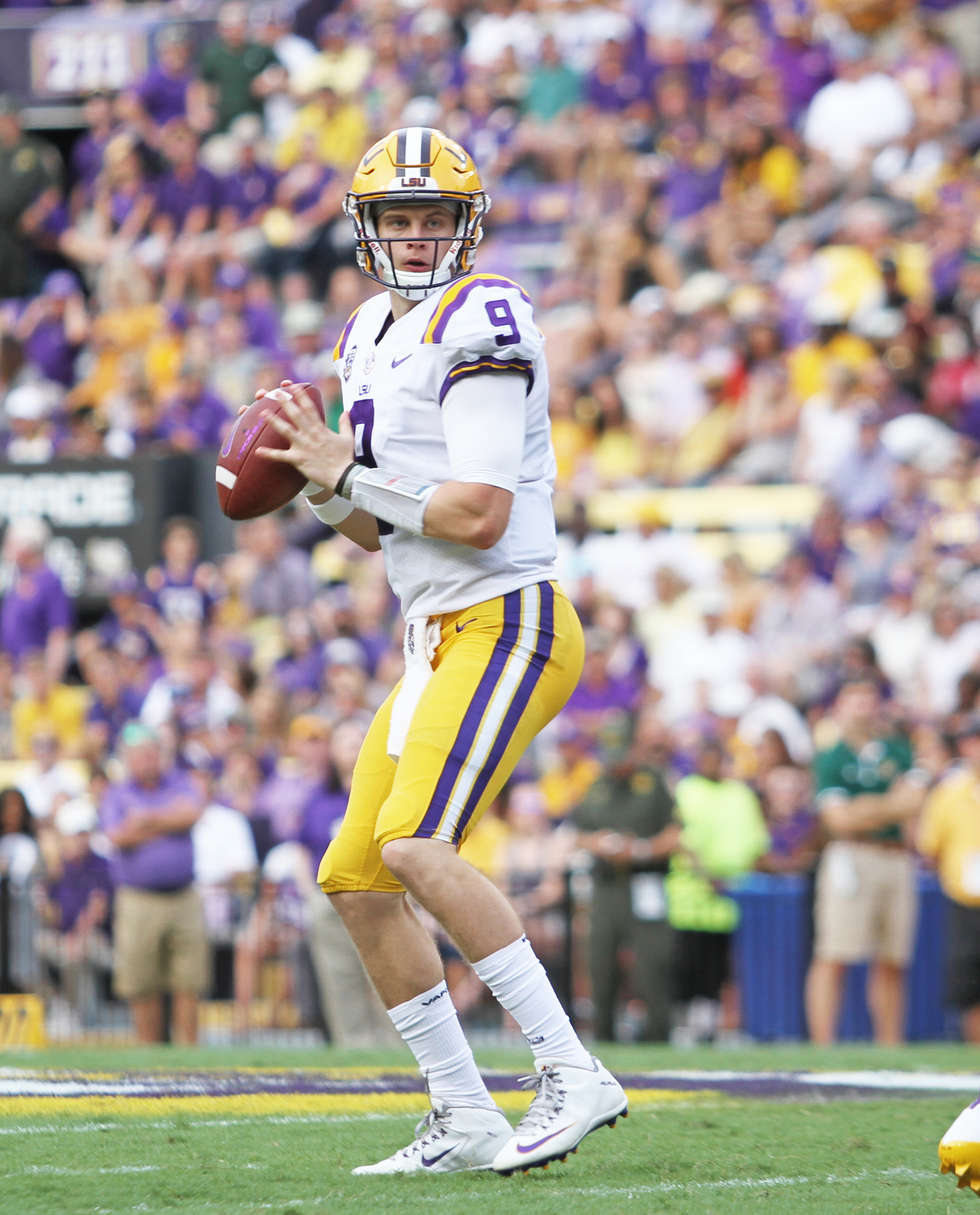 Joe Burrow, SELU vs LSU at Tiger Stadium, September 8th 2018, Tammy Anthony Baker, Photographer